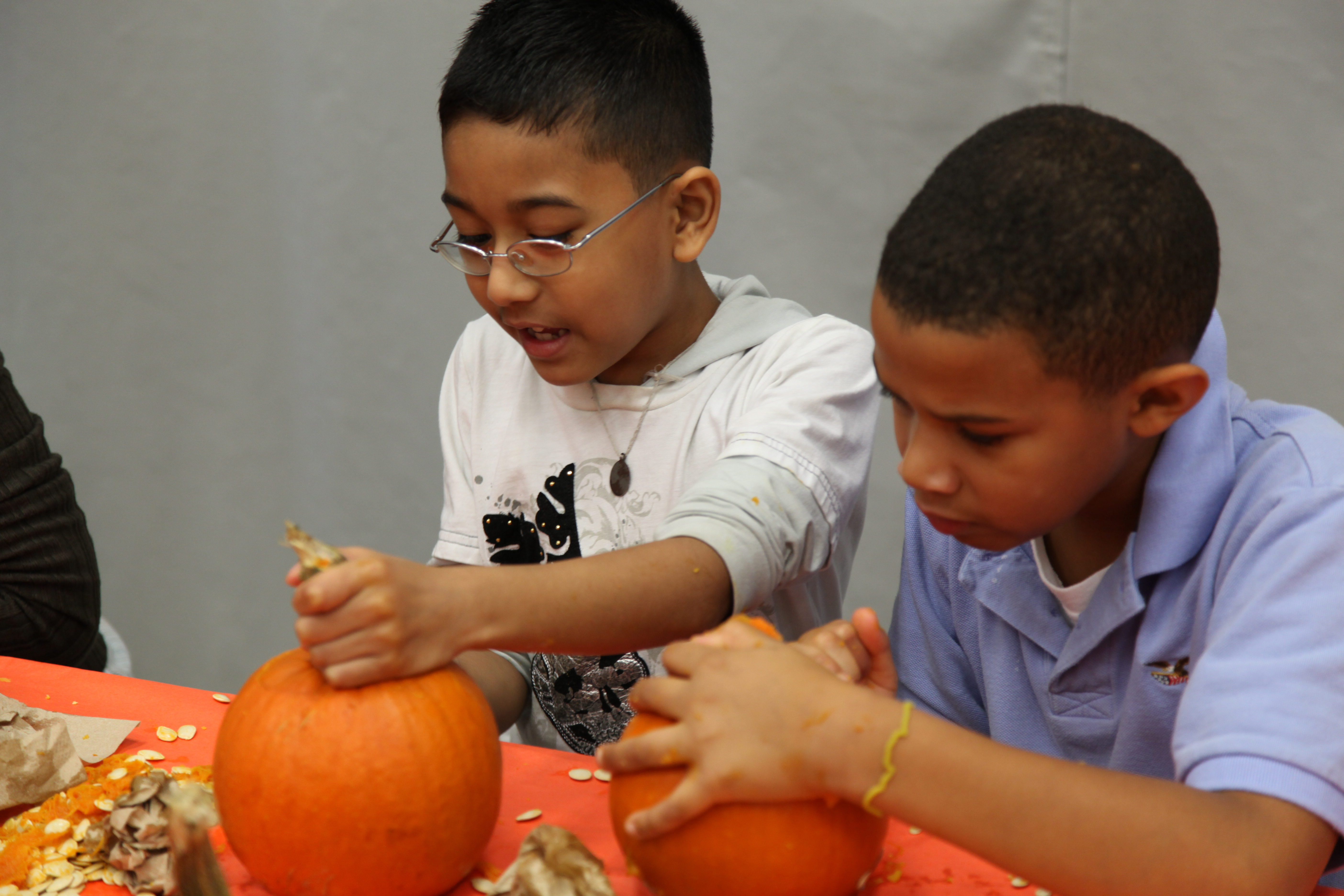 Sowrav Barua, a third grader at Barcroft Elementary School in Arlington, Va., carves his pumpkin with the Tutors and Buddies program Oct. 26, 2010. Traditionally, the tutors and buddies go into the school around Halloween to carve pumpkins with the third graders, but this year the fifth graders joined in on the fun.